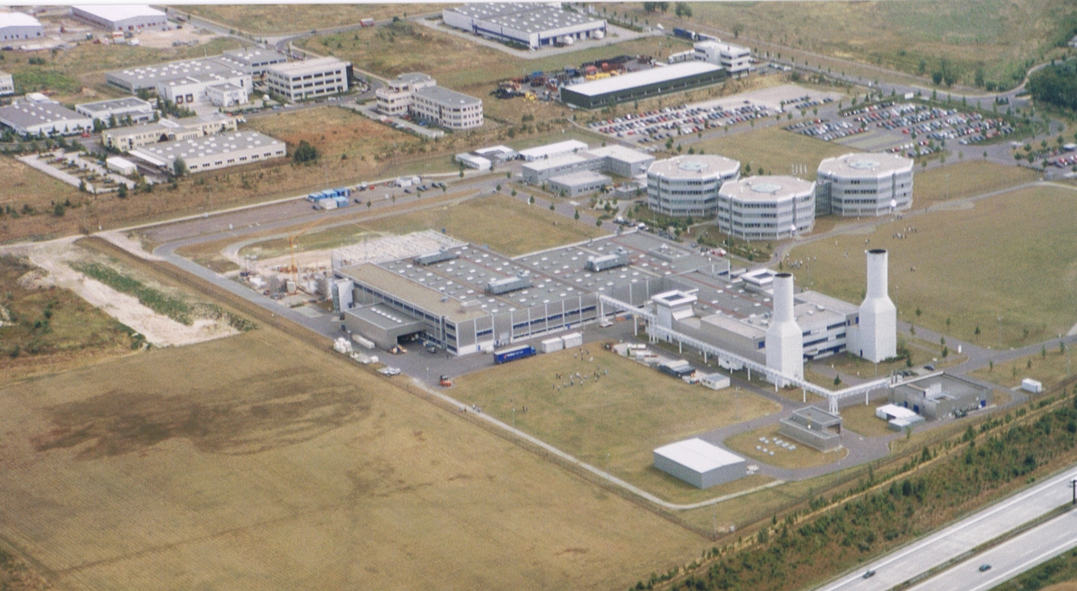 Rolls-Royce Factory Dahlewitz